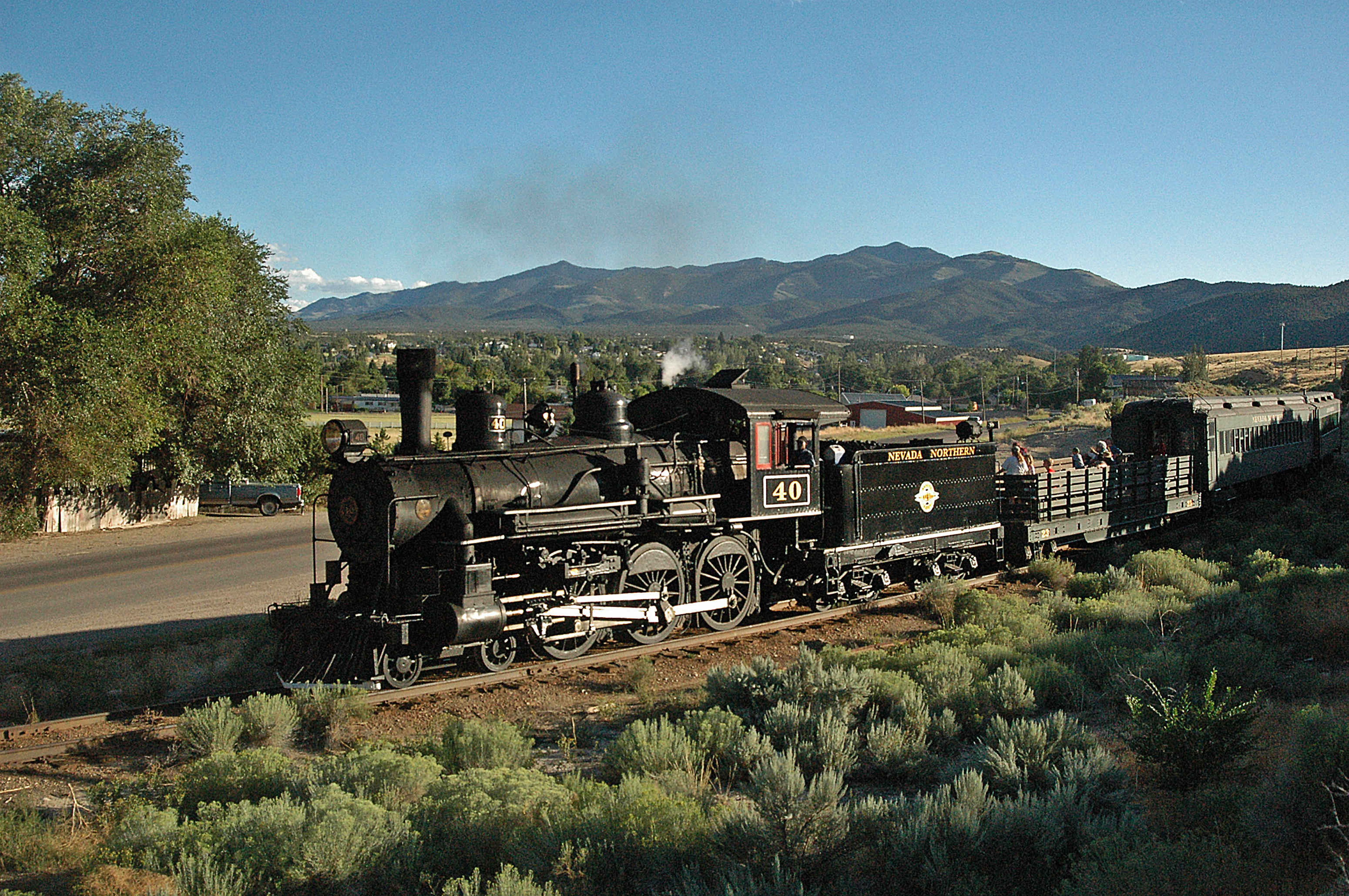 August 19th, 2005, returning to Ely, NV